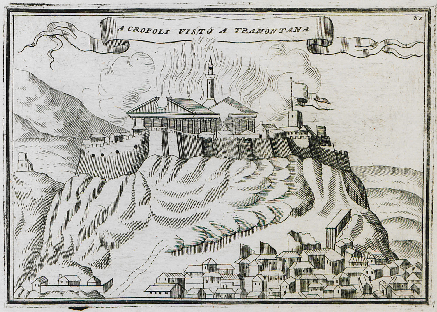 Vincenzo Coronelli. Memoire istoriografiche delli regni della Morea e Negroponte…, Venice, 1686